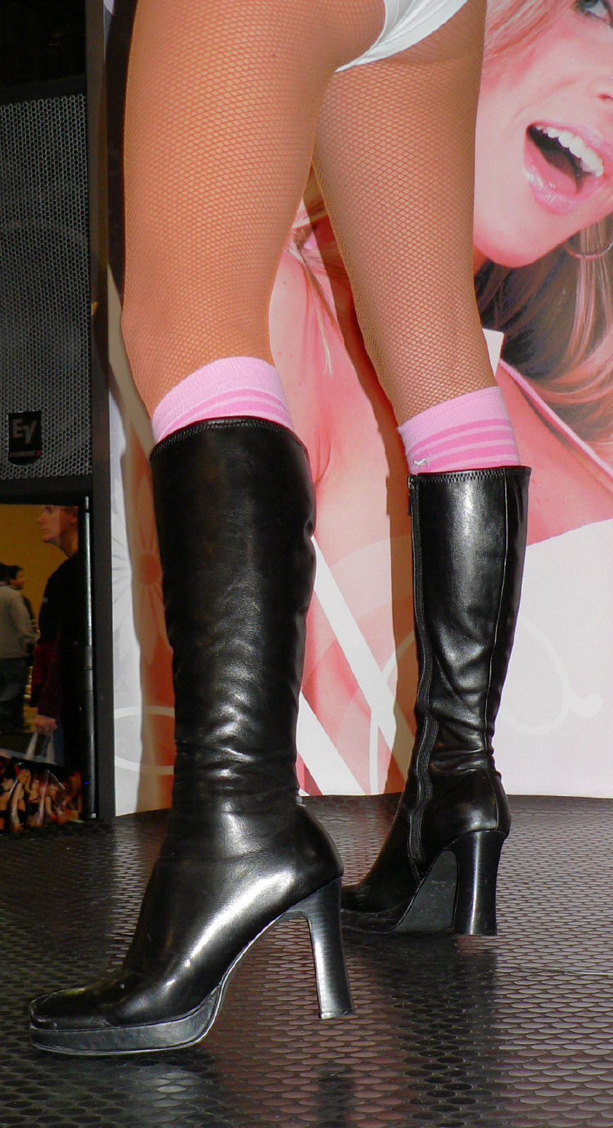 Fishnet hose with boots.